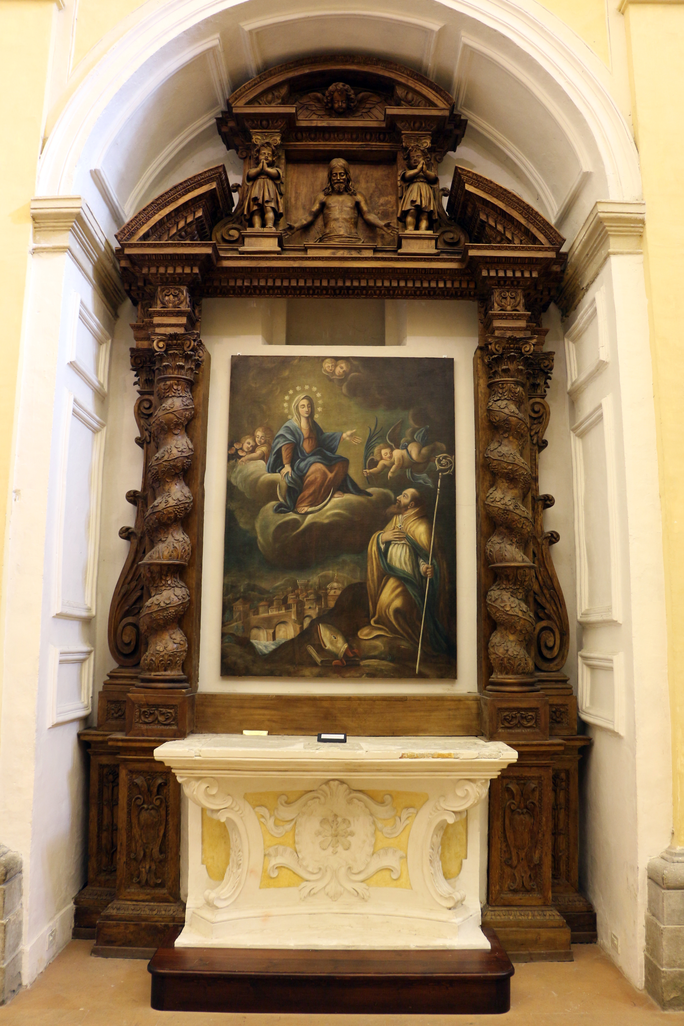 Santa Croce (Umbertide)